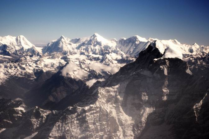 Gauri Shankar in the foreground and Labuche Kang (Lapche Kang) in the background